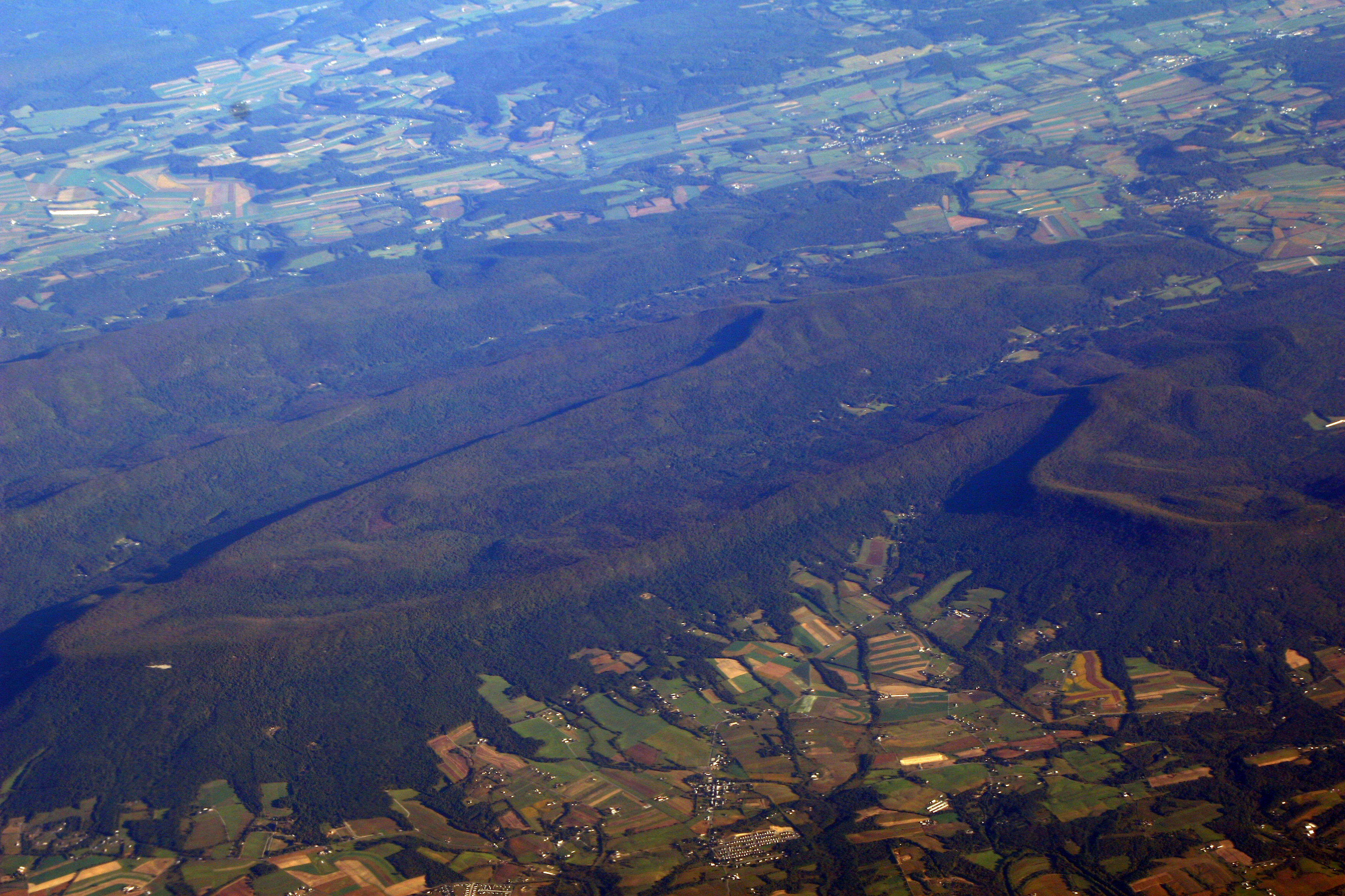 From the author: "A zizgag ridge in central Pennsylvania. The Cumberland Valley is below. Points named in image include: Flat Rock, Mount Dempsey, Bloserville, and Bowers Mountain." Location of the Cumberland Valley AVA.